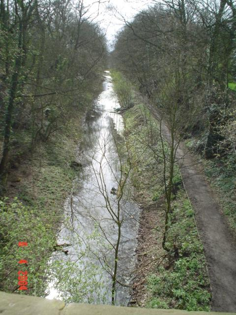 Looking S from SE 360 160. The towpath now forms part of the Trans Pennine Trail.